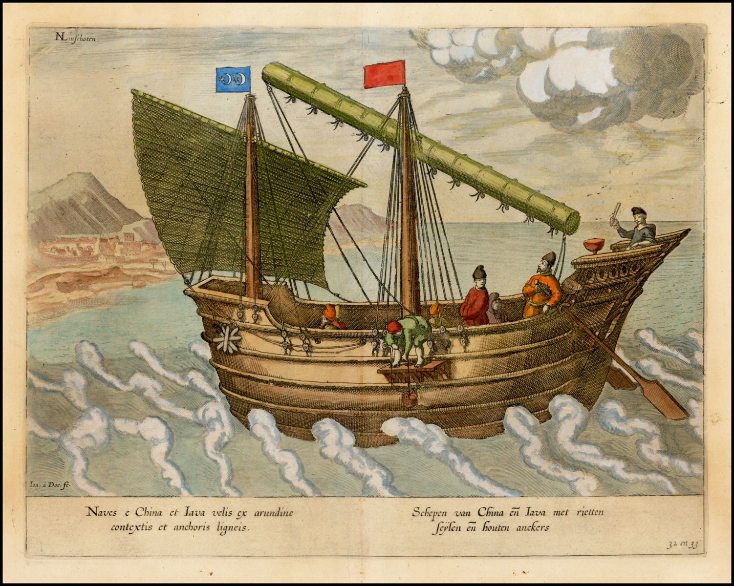 This image depicts a junk, with a seaside town in the background. This is an early portrayal of the kind of vessel that was traditionally the lifeblood of commerce throughout the sheltered seas of China and Southeast Asia. The ship is shown manned by sailors in period costume, of which one the figures is engaged in fishing. The flag featuring crescent moons suggests that this particular junk hailed from one of the Islamic sultanates of Indonesia. The text reads in Dutch language "Schepen van china et Iava met rietten seylen en houten anckers", in English "Ship of China and Java with rattan sails and wooden anchor" The presence of vegetal sails suggest Southeast Asian origin, and wooden anchors are commonly found in Nusantara archipelago even until 20th century.